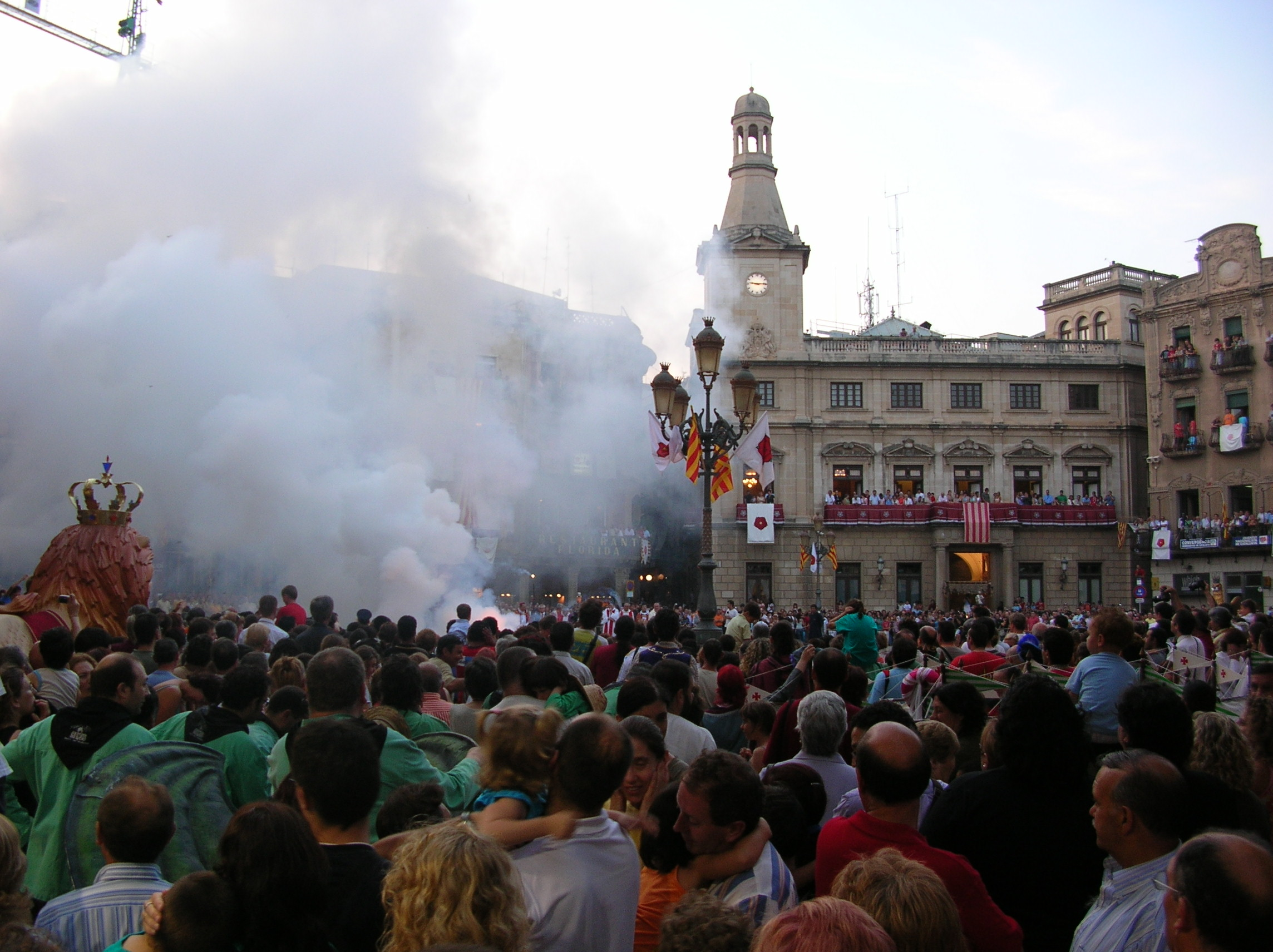 The "Tronada" of Reus, Catalonia.